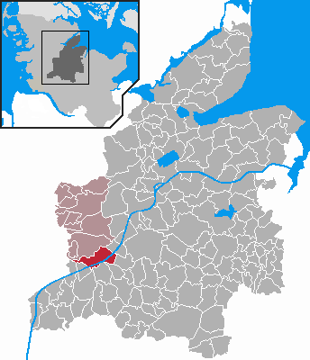 Locator maps of municipalities in Schleswig-Holstein - District Rendsburg-Eckernförde